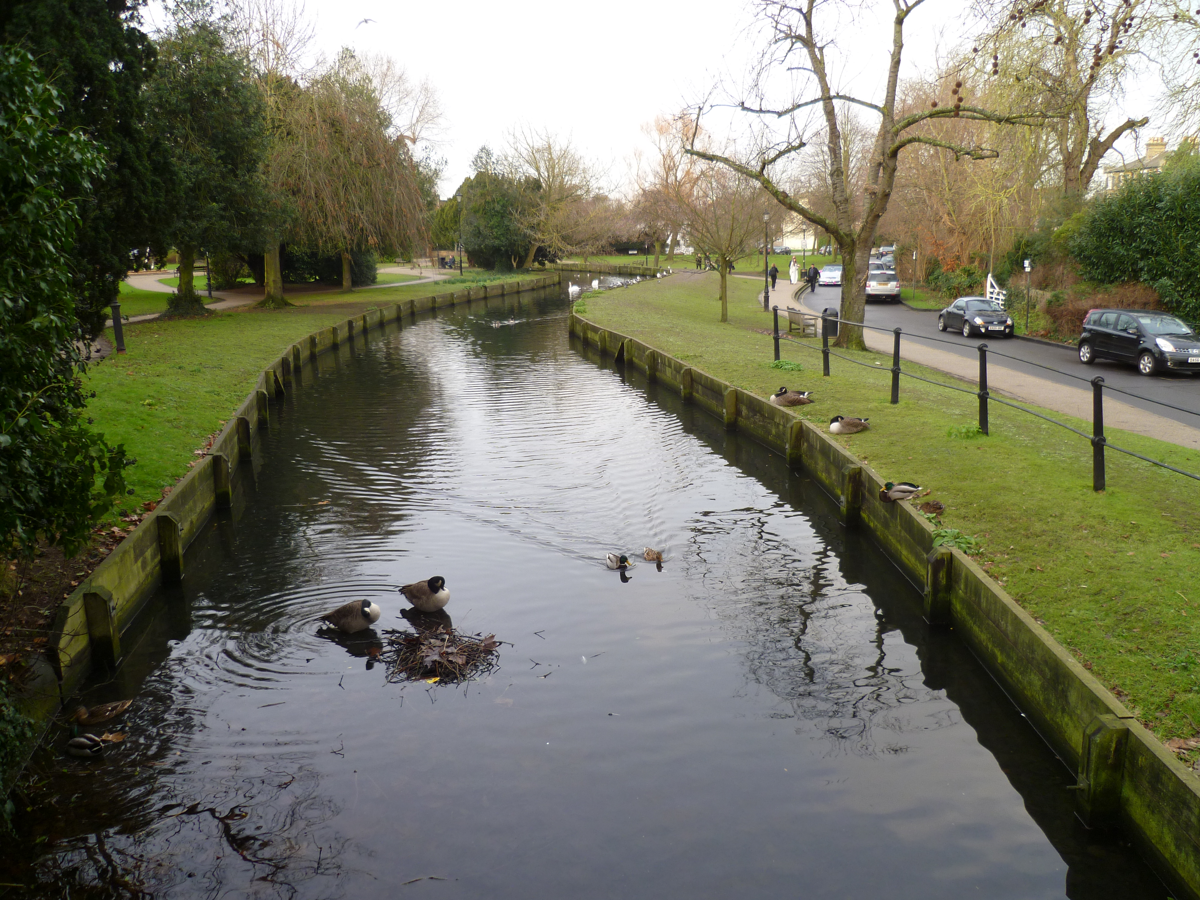 The New River, Enfield park looking north